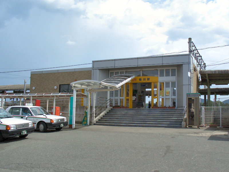 Keisen Station, Keisen Town, Fukuoka, Japan